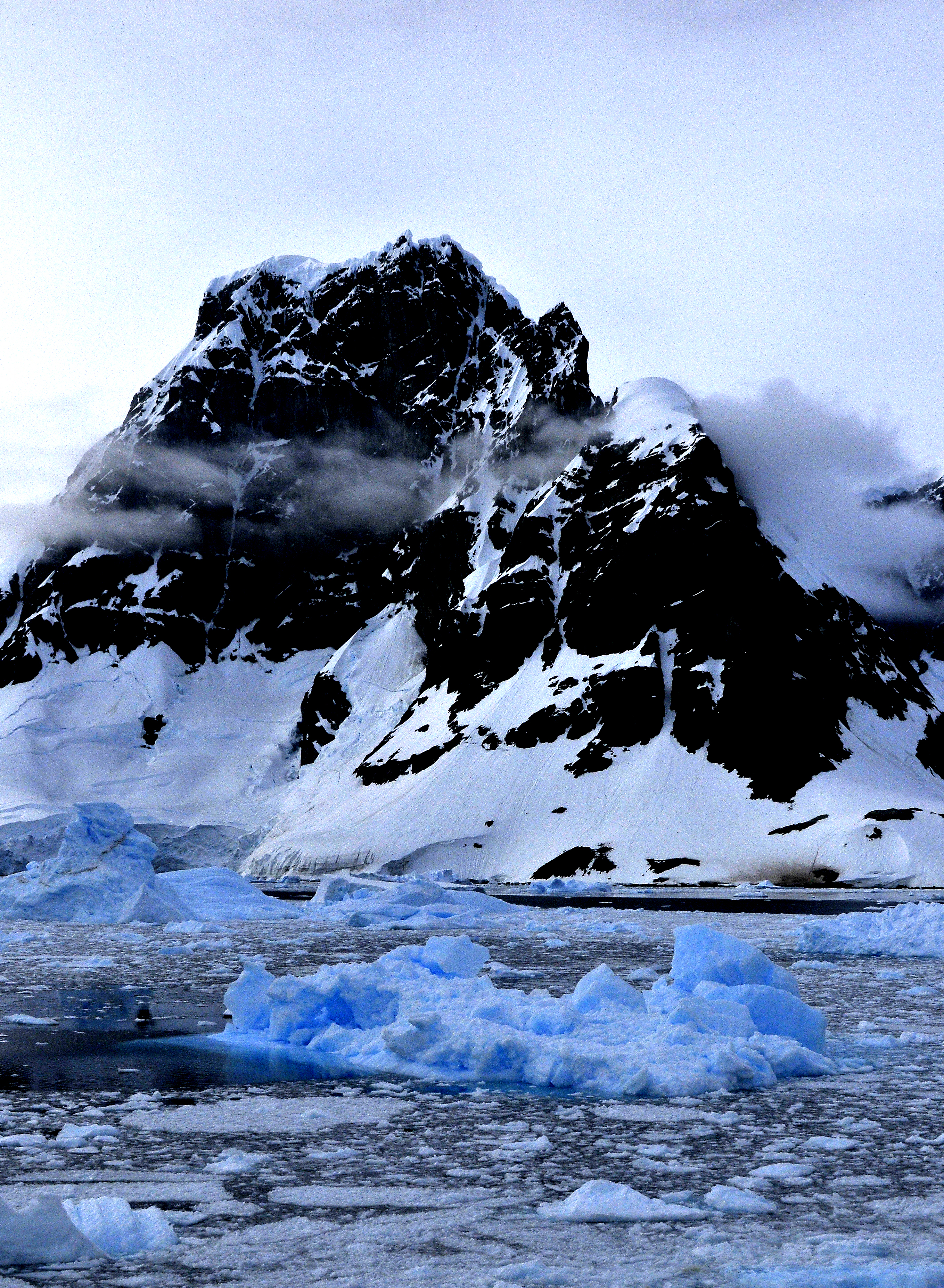 The edge of the Booth Island from the Lemaire Strait, Antarctica